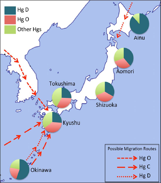 Frequencies of Y-DNA Haplogroup D and O in different Japanese population, arrows represent possible migration routes.